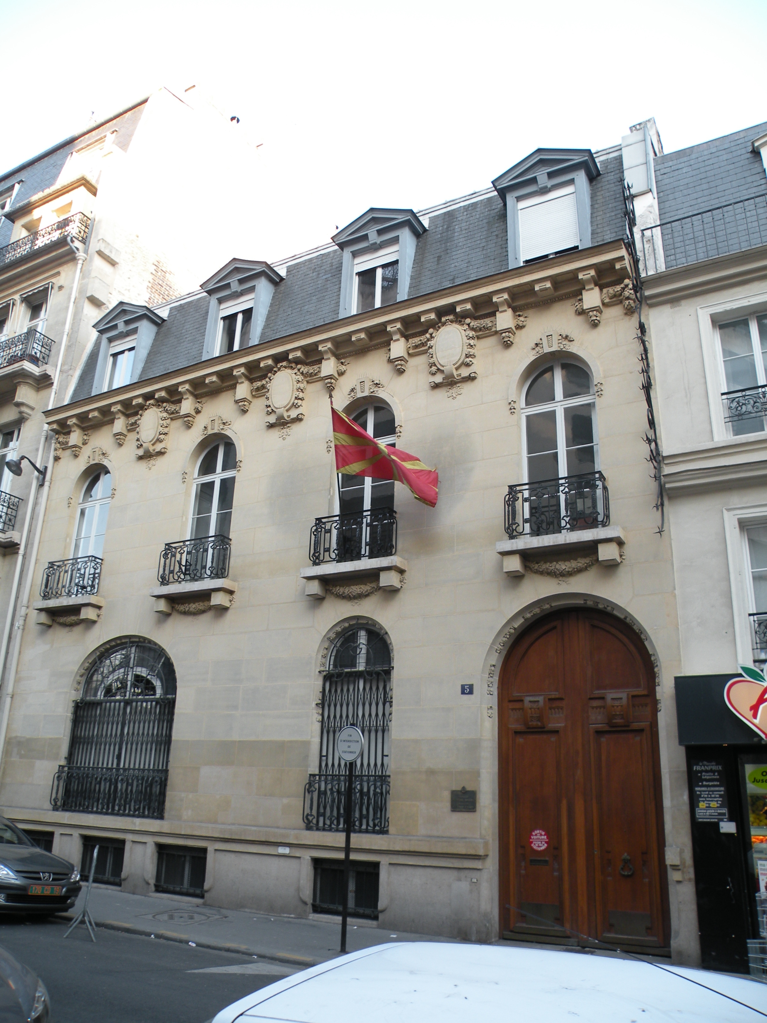 Macedonian embassy in France, Paris